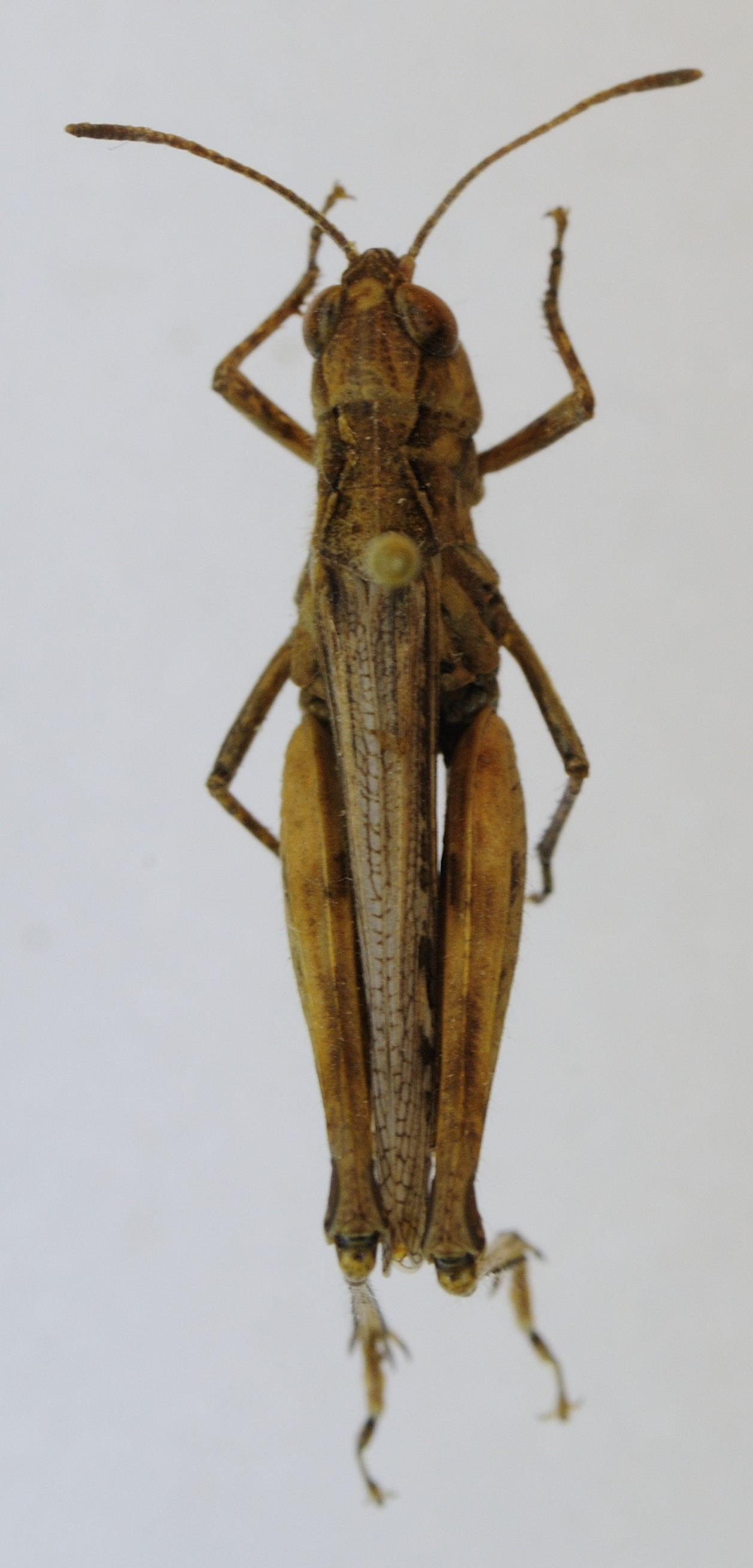 Myrmeleotettix antennatus (Fieber, 1853) Zoologische Staatssammlung München This picture was taken by Wikipedians in Zoologische Staatssammlung München (ZSM). The specimen belongs to the collections of ZSM.